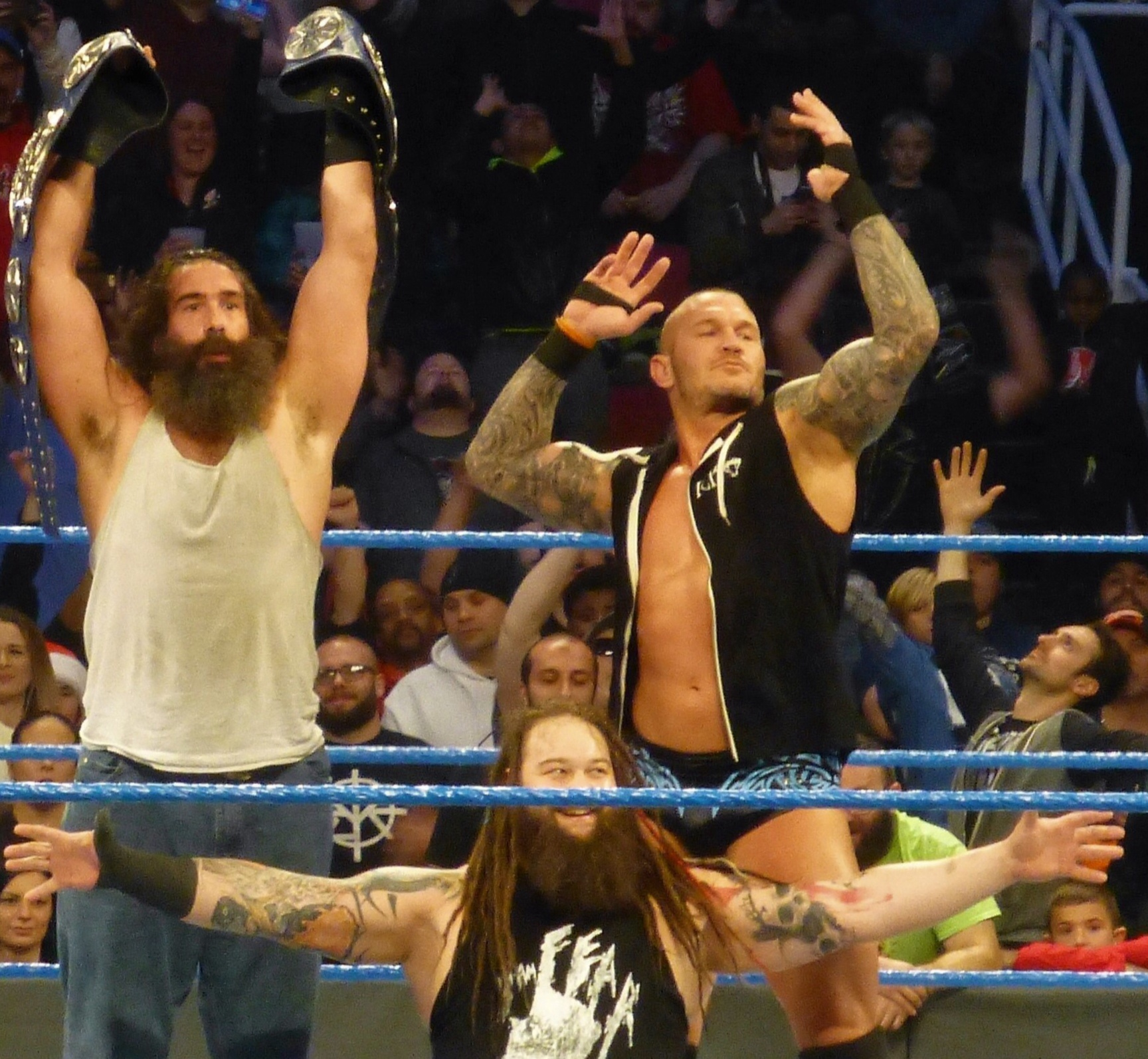 Luke Harper and Bray Wyatt and Randy Orton posing over Dean Ambrose